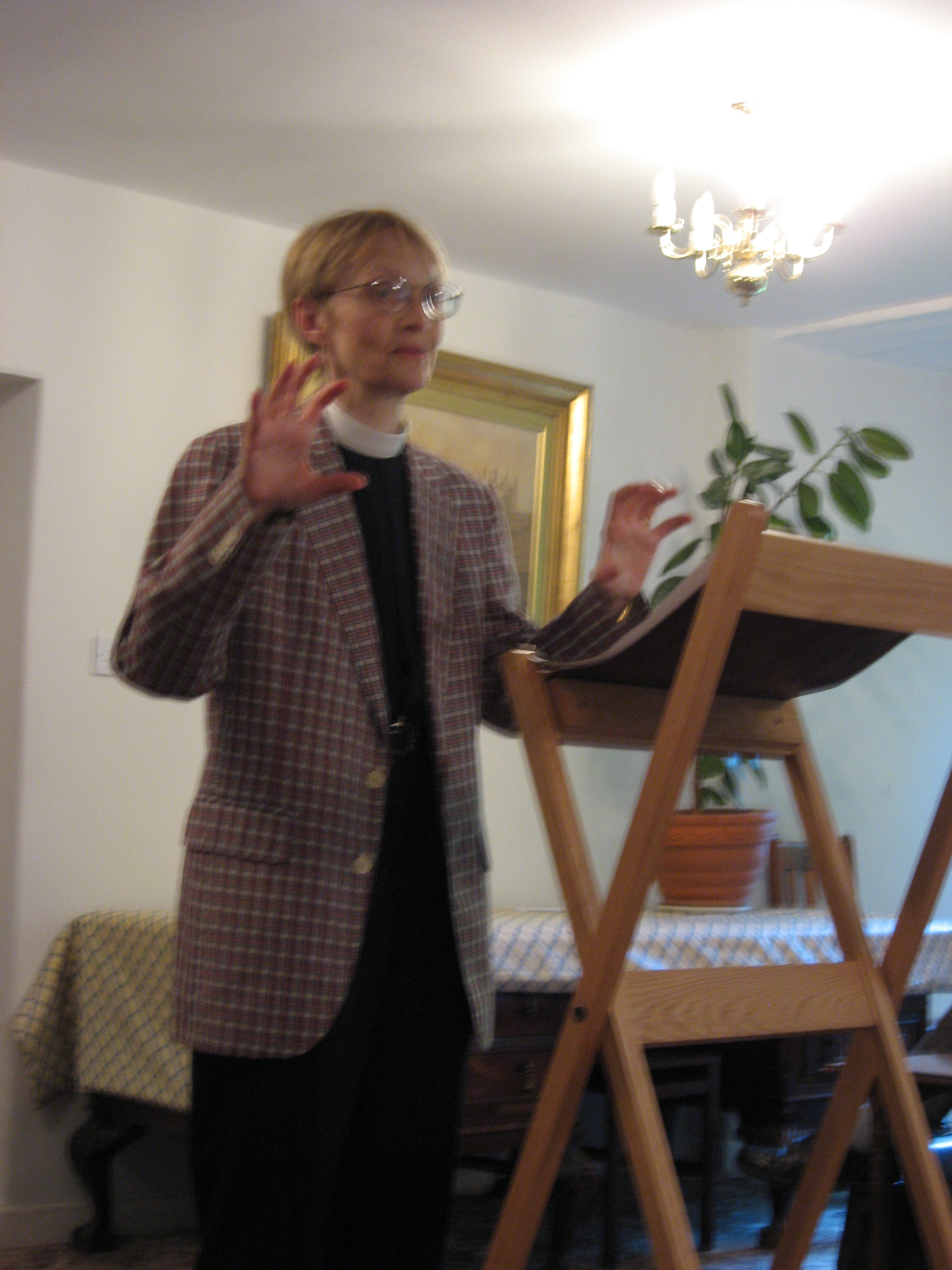 Marilyn McCord Adams, American philosopher